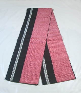 This obi is uesd for dancing.